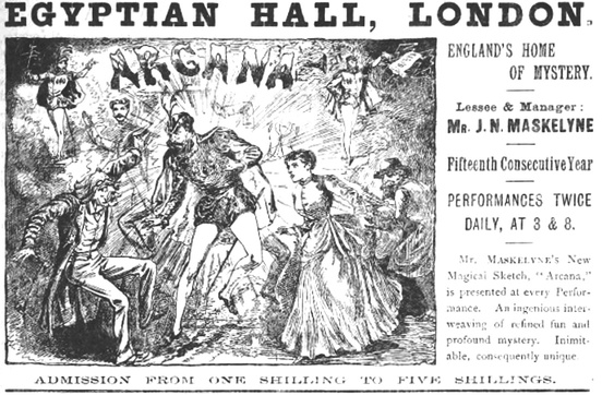 Advertisement for Arcana, a magic-themed show at the Egyptian Hall on Piccadilly in London.